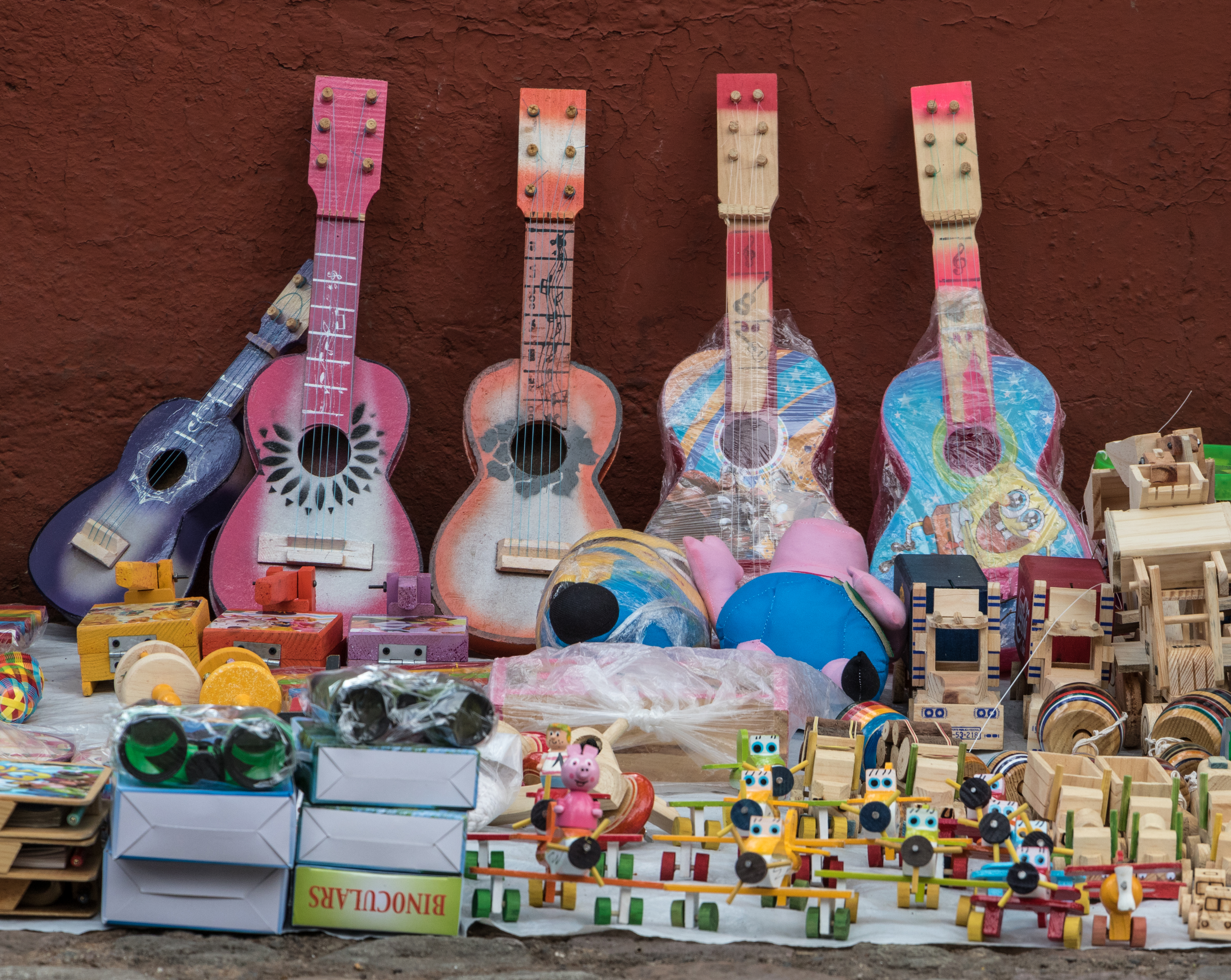 Mexican guitars and toys in Guanajuato, Mexico.